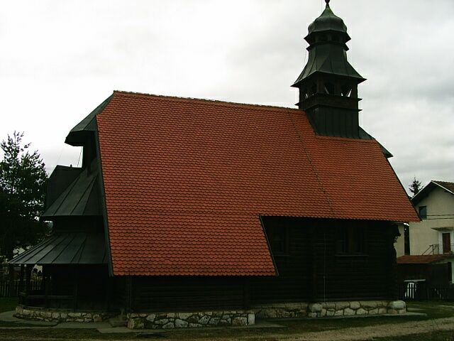 A church in Pale near Sarajevo, Republika srpska, Bosnia-Herzegovina